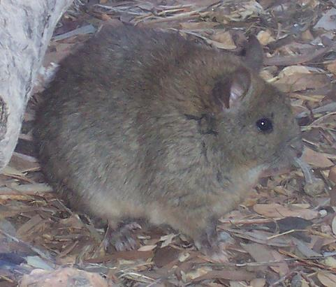 Greater Sticknest Rat (Leporillus conditor) in Alice Springs Park, Northern Territory, Australia